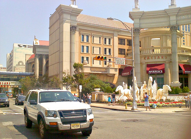 caesar entrance